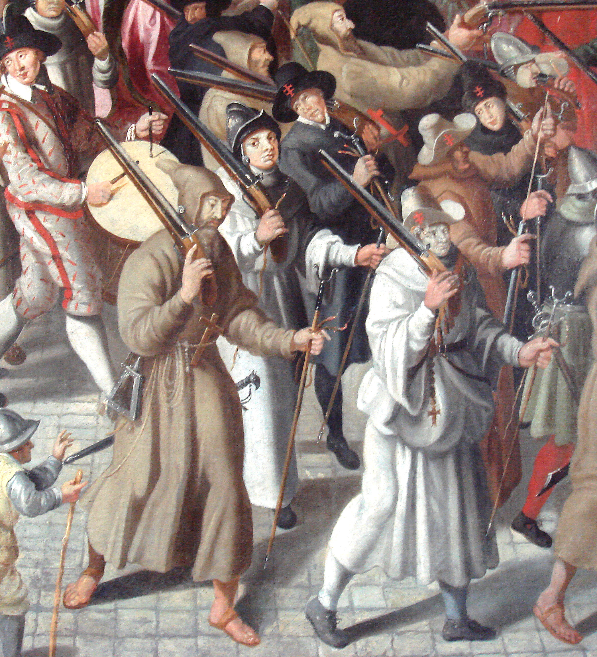 Procession_de_la_Ligue_dans_l_Ile_de_la_Cite_by_Francois_II_Bunel_1522_1599_detail.